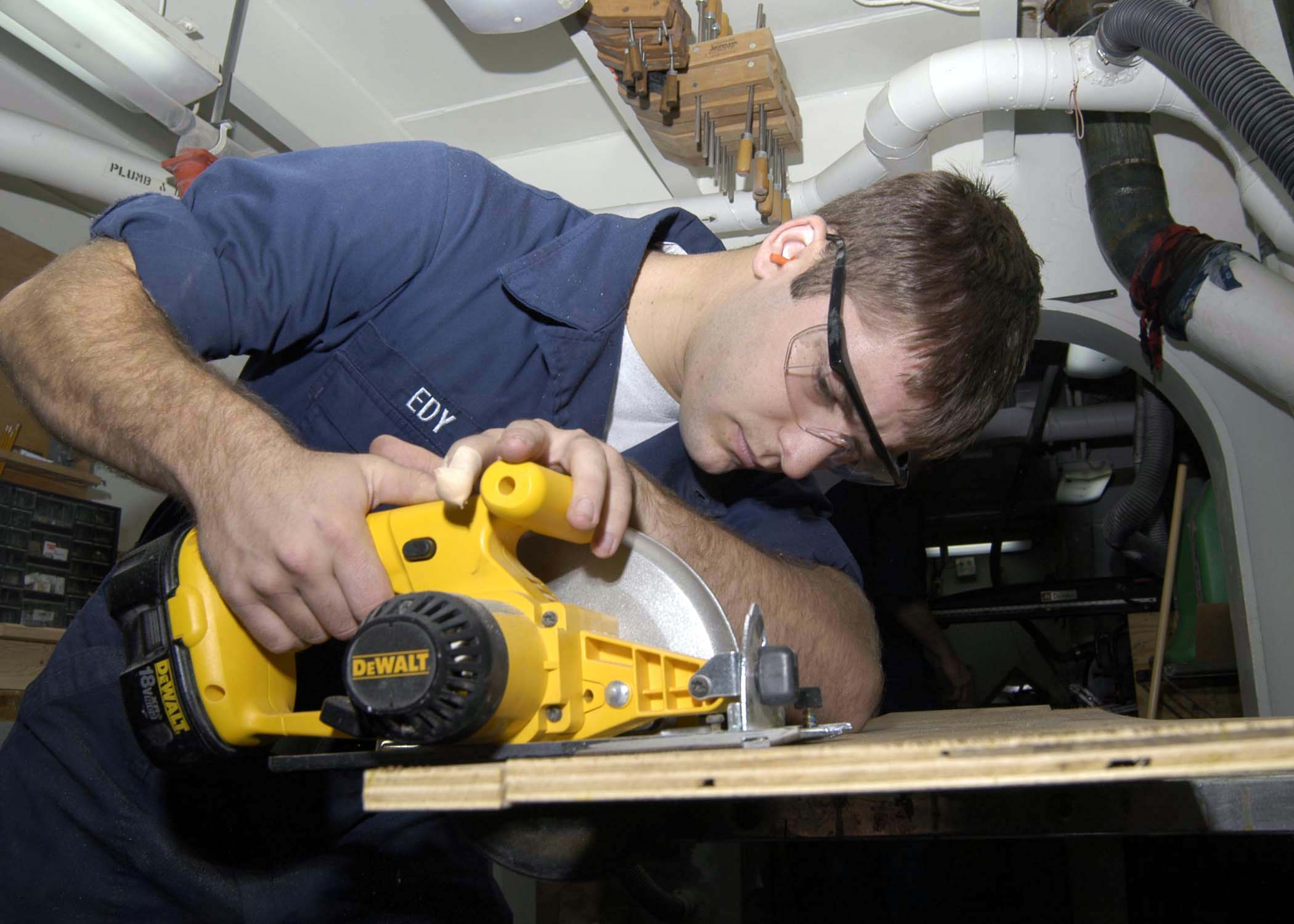 Pacific Ocean (Sept. 7, 2004) - Hull Technician Seaman Derek Edy, of Monument, Colo., uses an electric handsaw to cut the boarders of a utility box that he is building in the Carpentry Shop aboard the Nimitz-class aircraft carrier USS Abraham Lincoln (CVN 72). Lincoln and embarked Carrier Air Wing Two (CVW-2) are currently conducting local operations in preparation for an upcoming deployment. U.S. Navy photo by Photographer's Mate 3rd Class Michael S. Kelly (RELEASED)